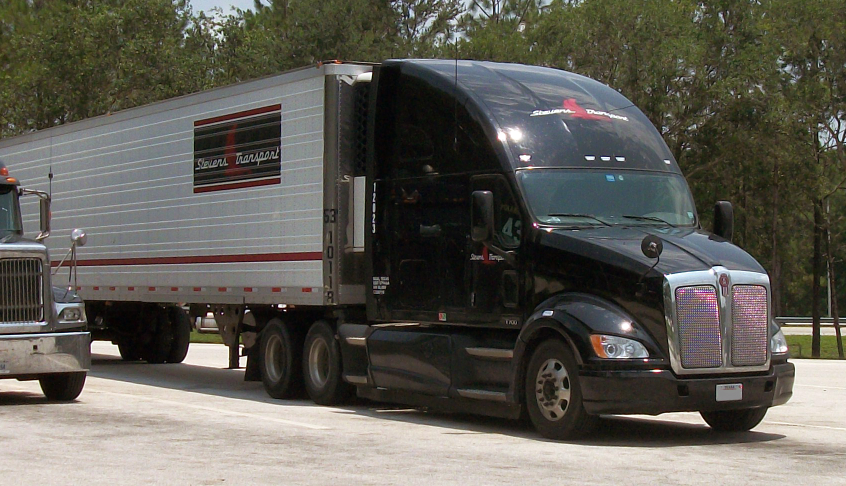 A brand new Kenworth tractor-trailer pulls into the truck, bus, and tractor-trailer parking area of the southbound Sumter County rest area along Interstate 75 in southern Sumter County, Florida. I'm not sure what the model was, but I can look it up.